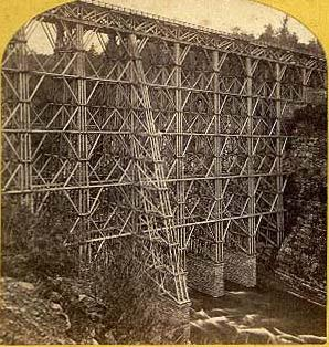 Old Portage Bridge in 1864. The Erie Railroad Company built this wooden trestle bridge over the Genesee River just above the Upper Falls in what is now Letchworth State Park.